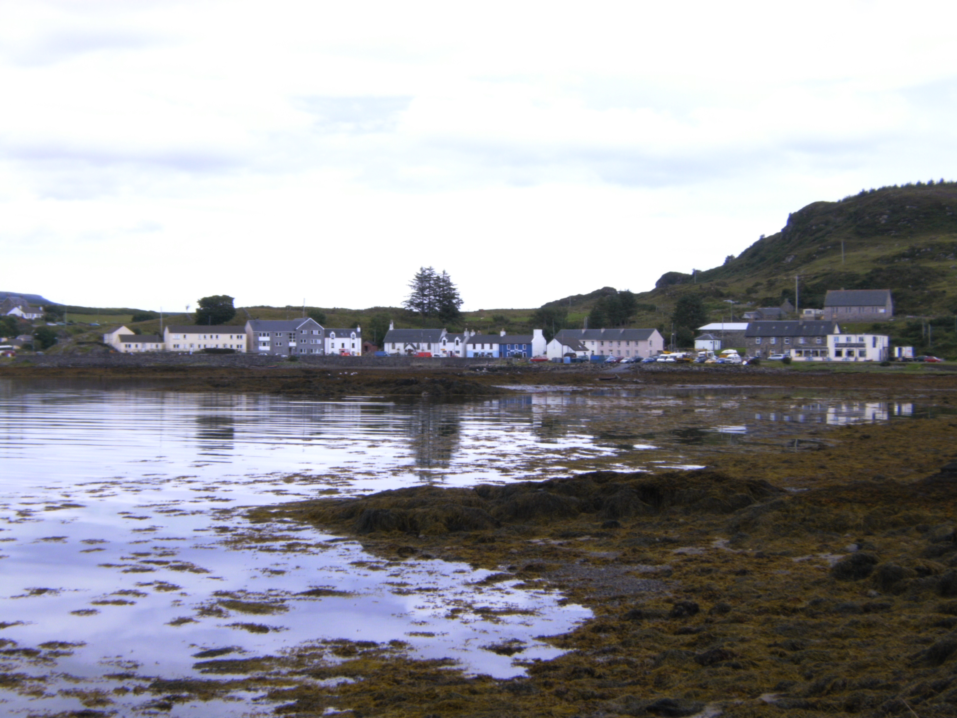 Bunessan, Isle of Mull